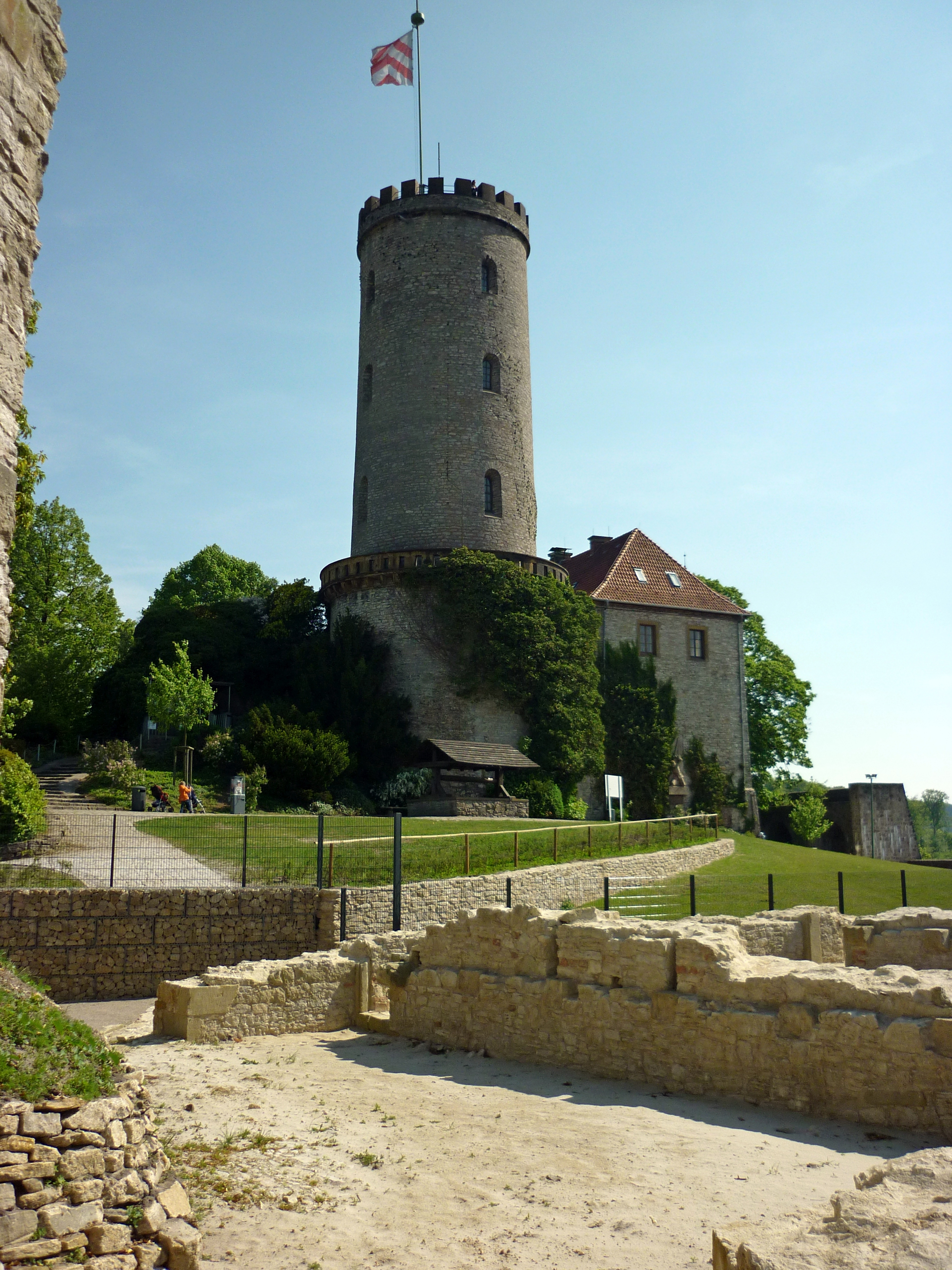 Germany, Bielefeld: Sparrenberg Castle (commonly named “Sparrenburg”). Bergfried.